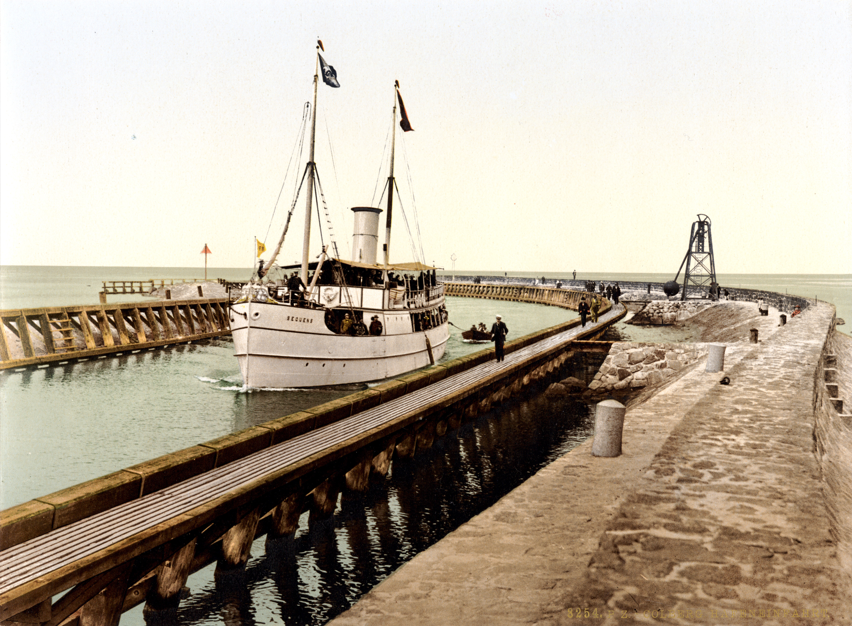 Steamer Sequens entering harbor, Kołobrzeg, Pomerania (before 1945 Kolbeg in Pommern). 1 photomechanical print : photochrom, color.